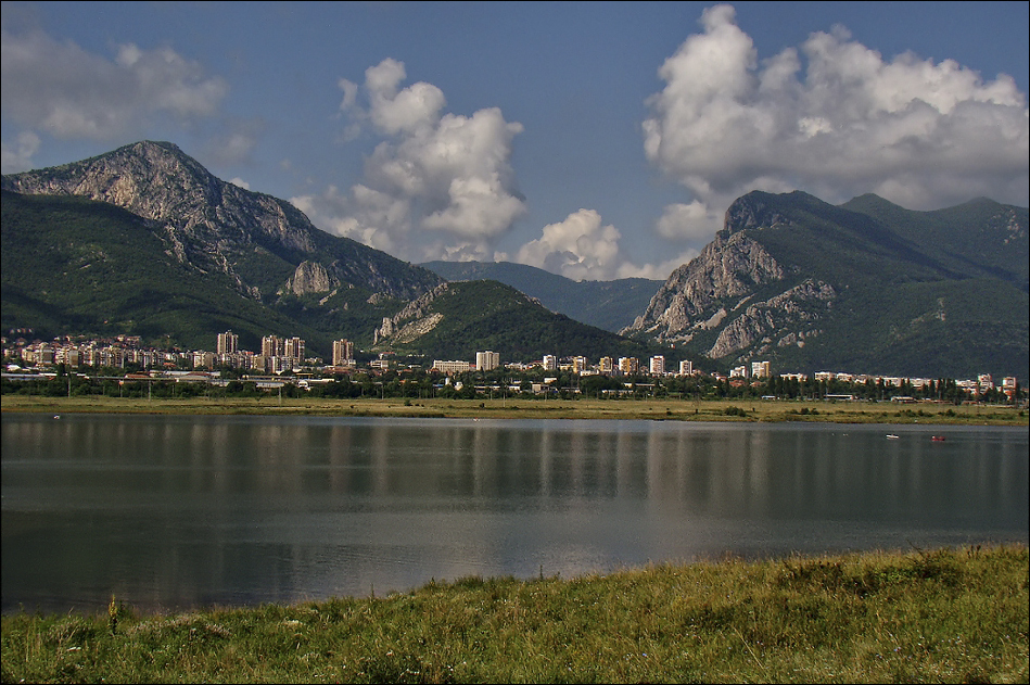 Vratsa panoramic view